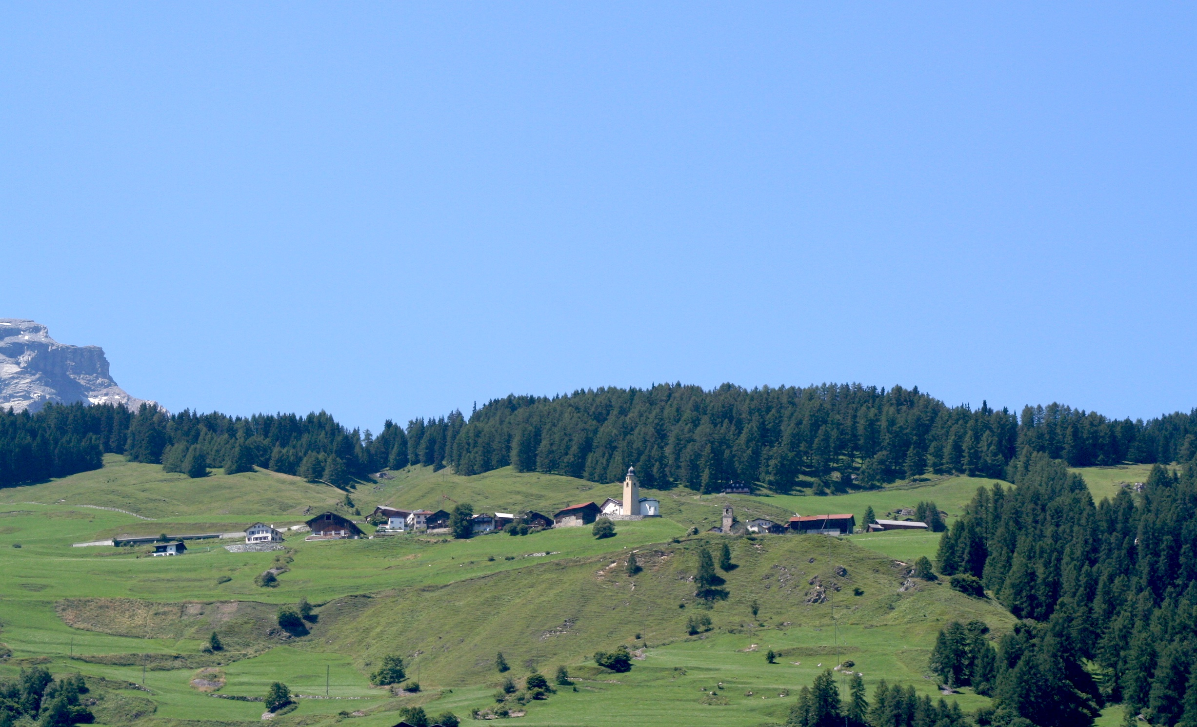 Mathon